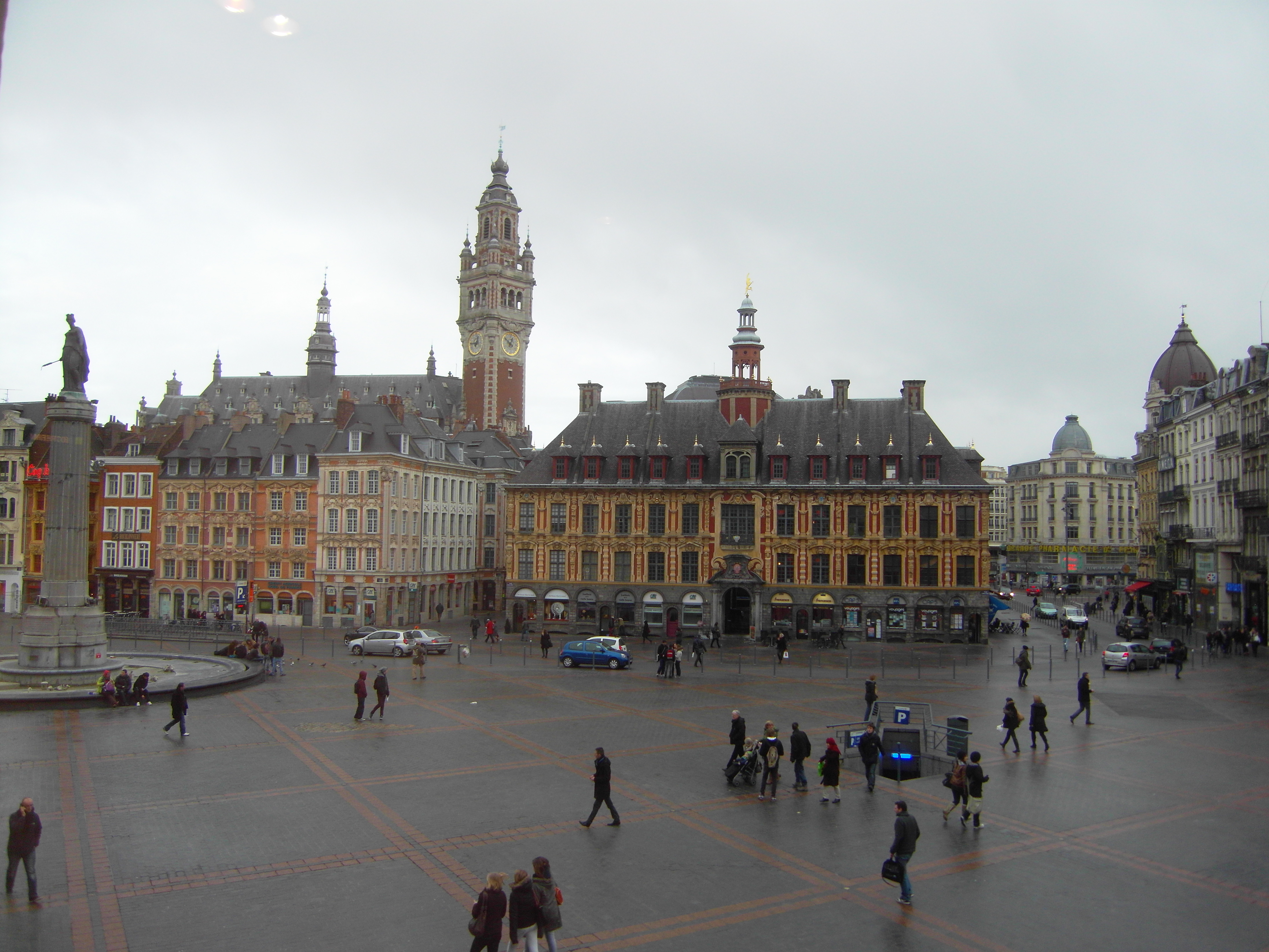 Grand Place